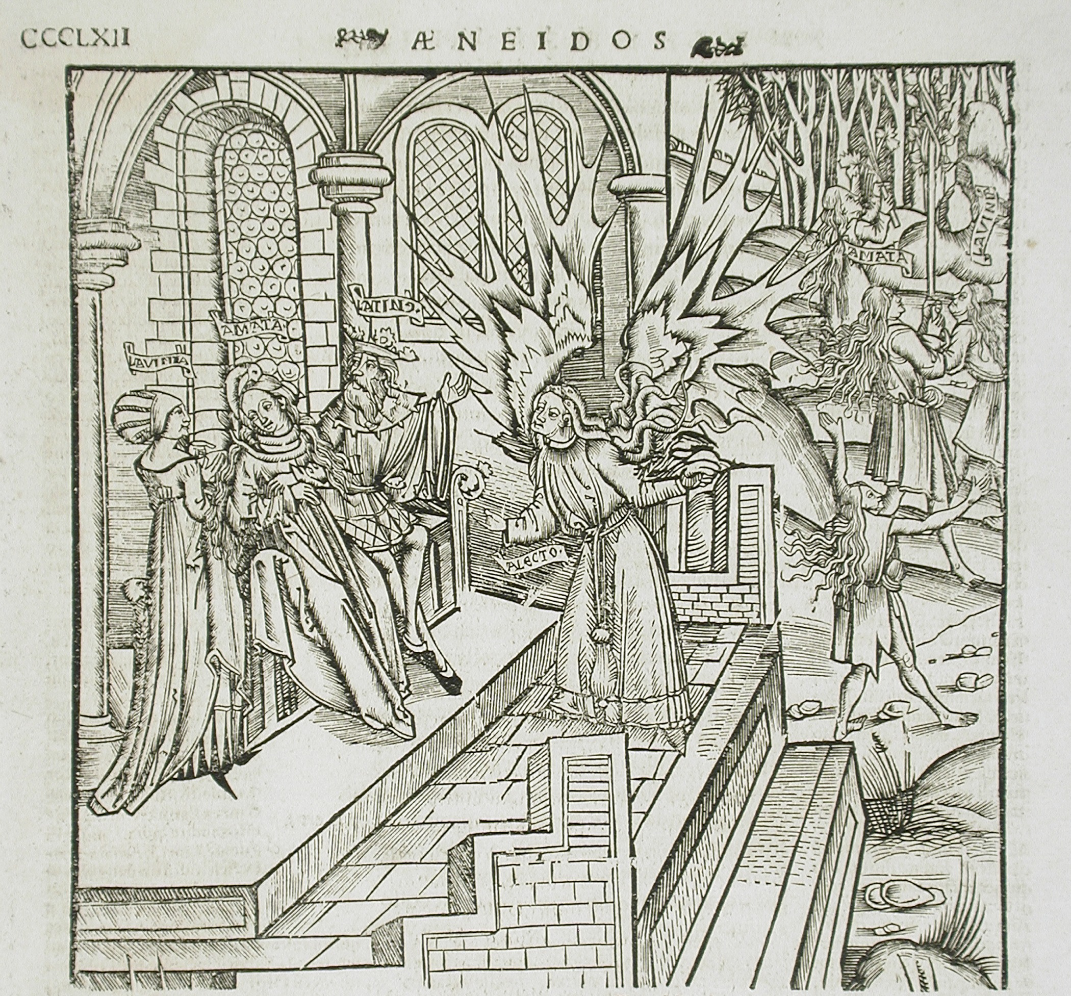 France, 16th century Book: The Aeneid Prints; woodcuts Woodcut and letterpress Museum Purchase with County Funds (65.36.1) Prints and Drawings